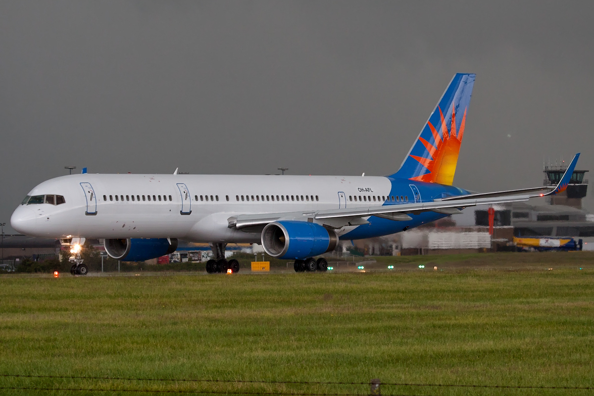 An Air Finland Boeing 757-204 aircraft (OH-AFL, cn 26963) at Leeds Bradford International Airport